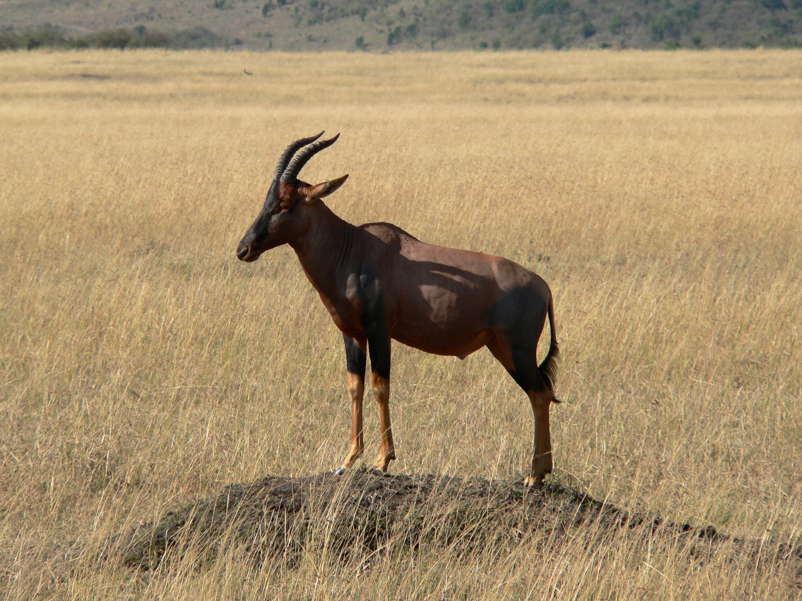 On the lookout for predators, it didn't move as long as we watched it.